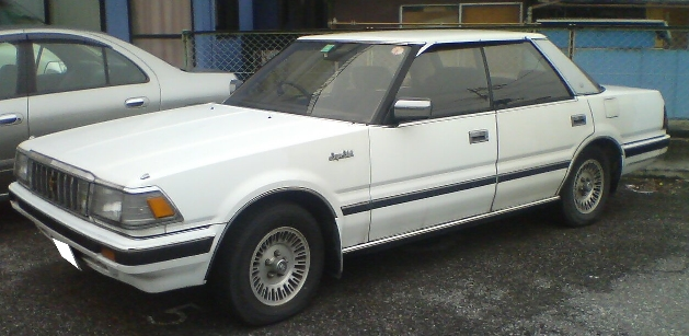 Toyota Crown Super Select Hardtop sedan